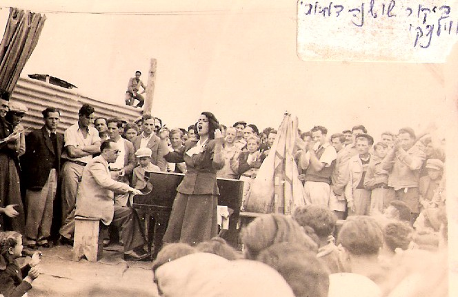 Moshe Wilensky and different from the DP camps in Cyprus Live